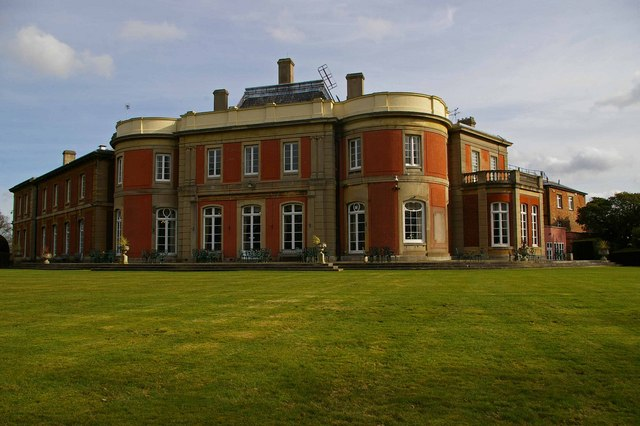 Rear of Esher Place. This is the rear elevation of 718471 , the training college of Unite the union. for a full history.